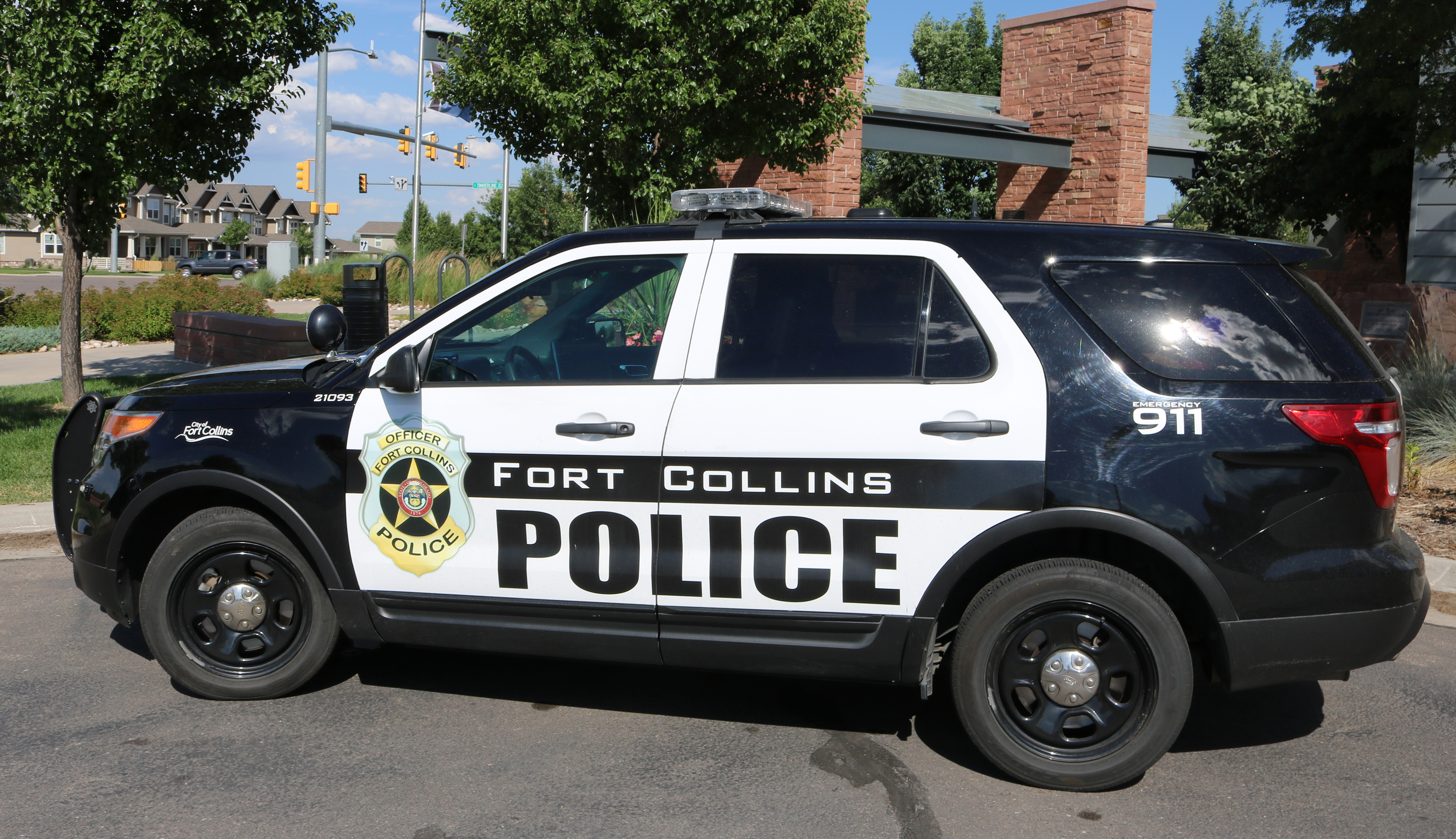 A police car belonging to the Fort Collins (Colorado) Police Services.